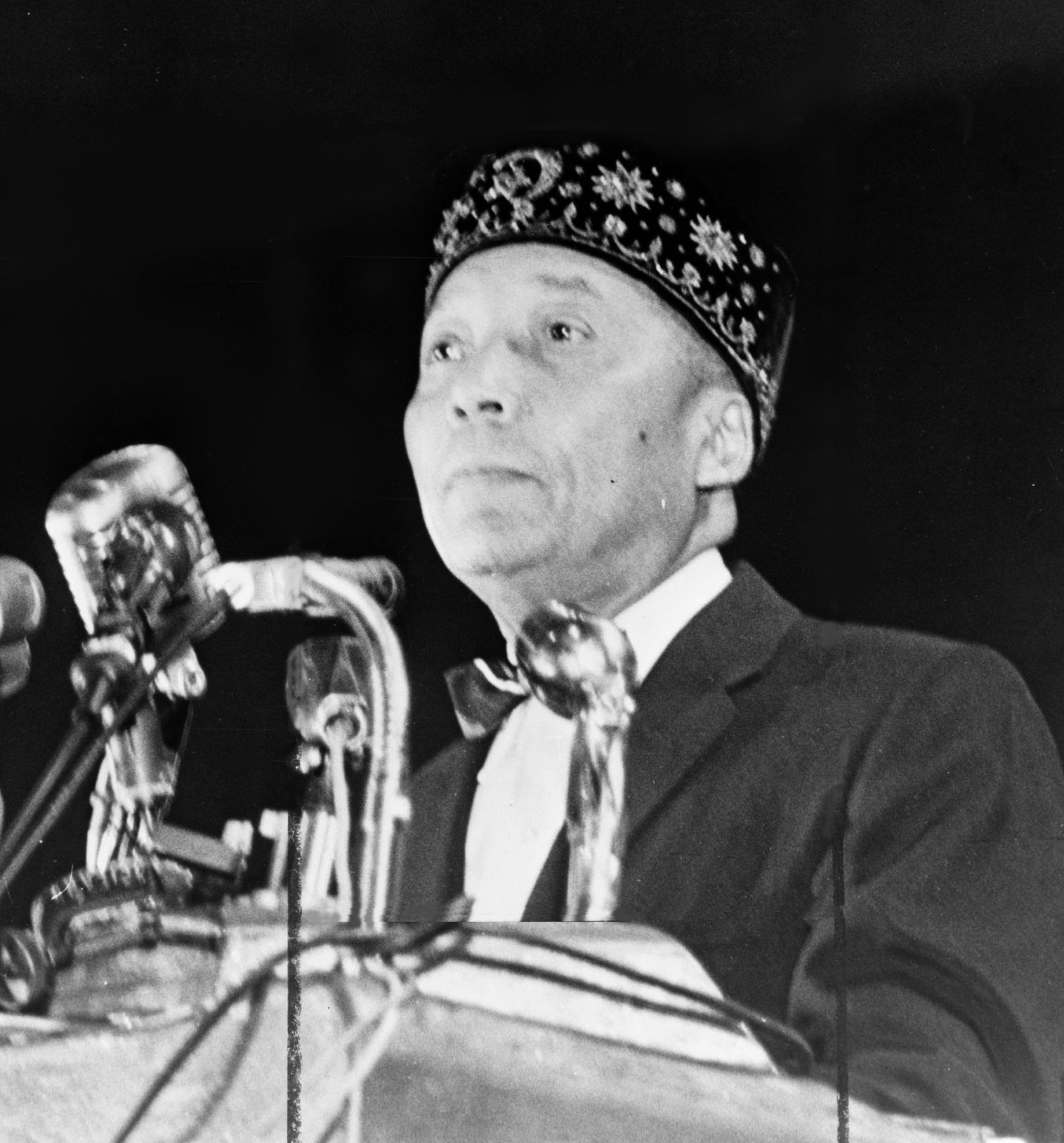 Elijah Muhammad standing behind microphones at podium / World Telegram & Sun photo by Stanley Wolfson.